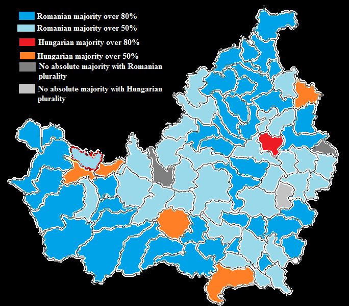 Ethnic map of Cluj County, based on the 2011 census.